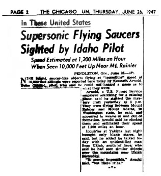 1947 June 26 Chicago Sun article "Supersonic Flying Saucers Sighted by Idaho Pilot". Perhaps first-use of term "flying saucer" in headline from Chicago Sun about Kenneth Arnold sighting, June 26, 1947 Kenneth Arnold UFO sighting. PAGE 2 THE CHICAGO SUN, THURSDAY, JUNE 26, 1947 In These United States Supersonic Flying Saucers Sighted by Idaho Pilot Speed Estimated at 1,200 Miles an Hour When Seen 10,000 Feet Up Near Mt. Rainier PENDLETON, Ore, June 25. — ([?]). Nine [bright], saucer-like objects flying at "incredible" speed at 10,000 feet altitude were reported here today by Kenneth Arnold, [Boise] (Idaho) pilot, who said he could not hazard a guess as to what they were. Arnold, a U.S. Forest Service employee searching for a [missing] plane, said he sighted the mystery craft at 3 p.m. They were flying between Mount Rainier and Mount Adams, in Washington state, he said, and appeared to weave in and out of formation. Arnold said he clocked them and estimated their speed at 1,200 miles an hour. Inquiries at Yakima last night brought only blank stares, he said, but he added he talked today with an unidentified man from [Ukiah], south of here, who said he had seen similar objects over the mountains near [Ukiah] yesterday. "It seems impossible," Arnold said, "but there it is." - *